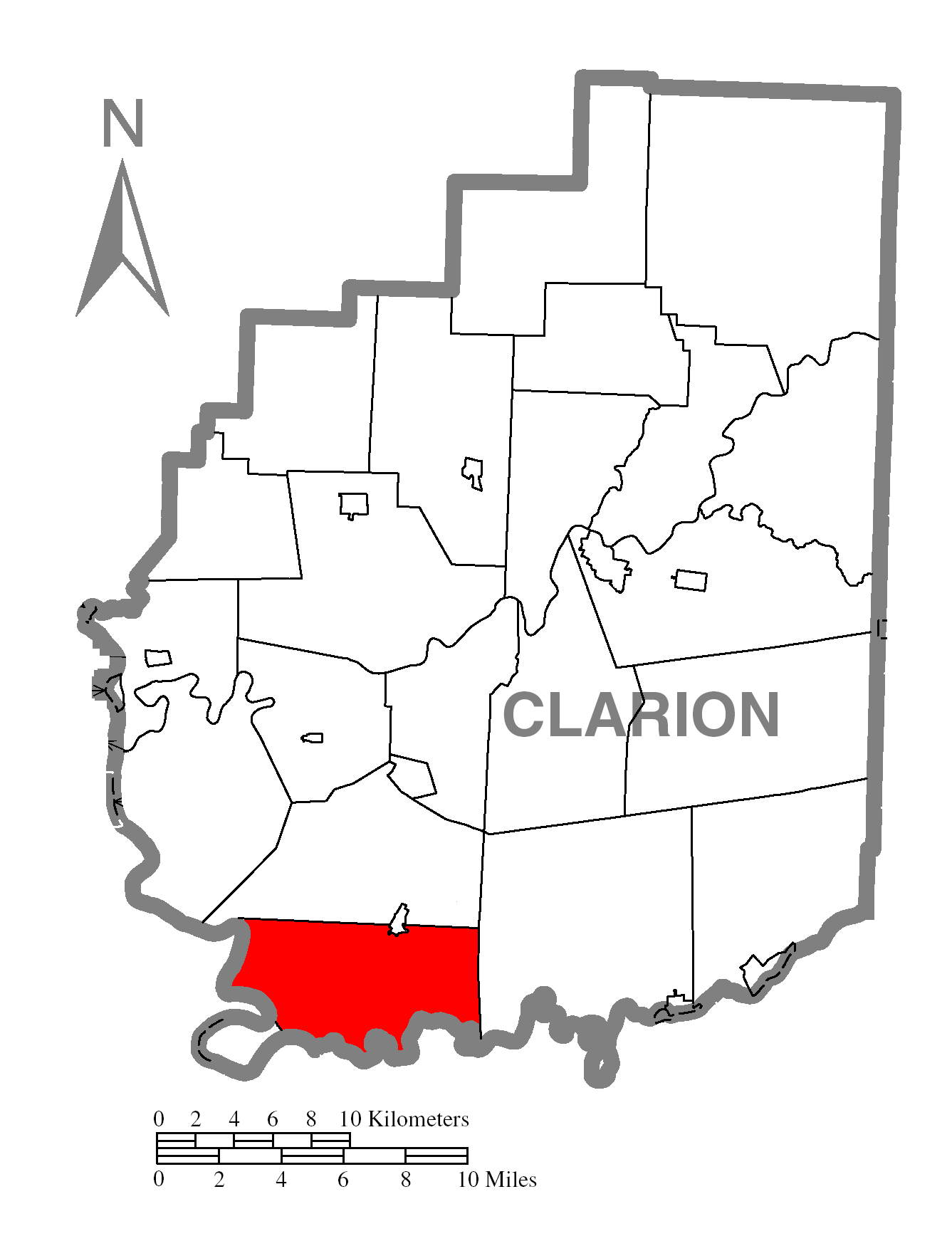 A map of Clarion County showing Madison Township, Pennsylvania (alternate) highlighted on the map.